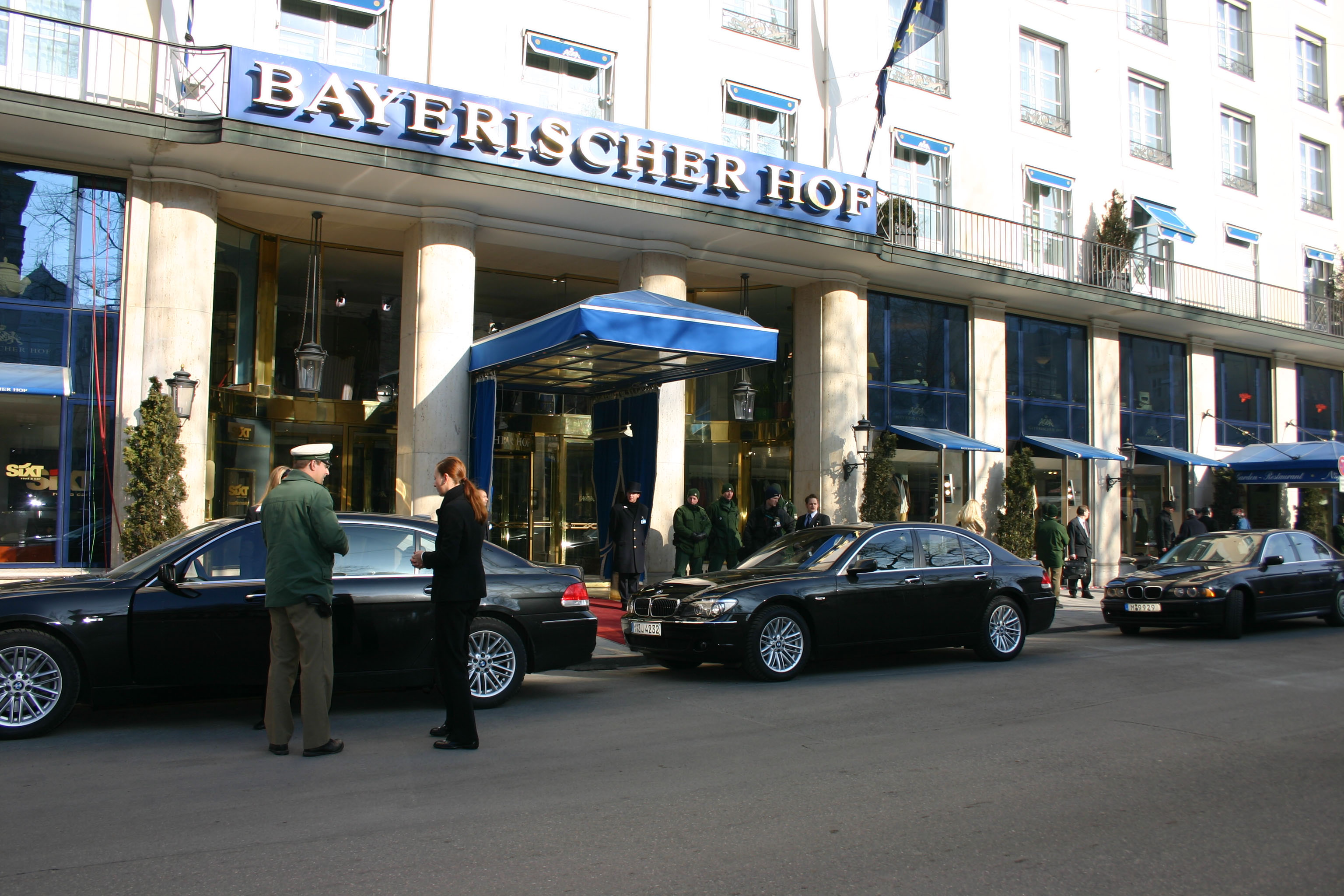 42nd Munich Security Conference 2006: The Hotel Bayerischer Hof on Friday.